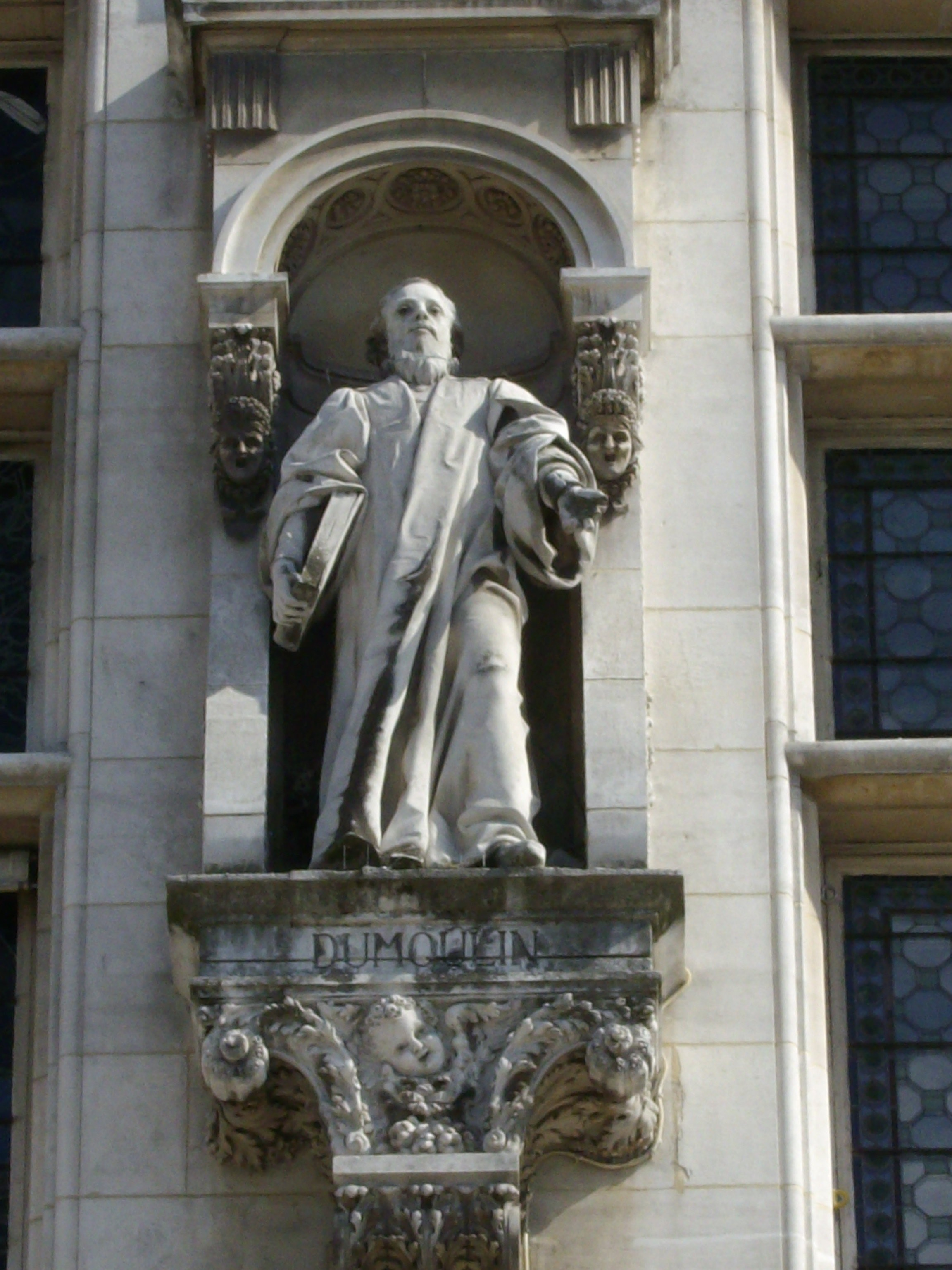 Statues of the City Hall in Paris, France